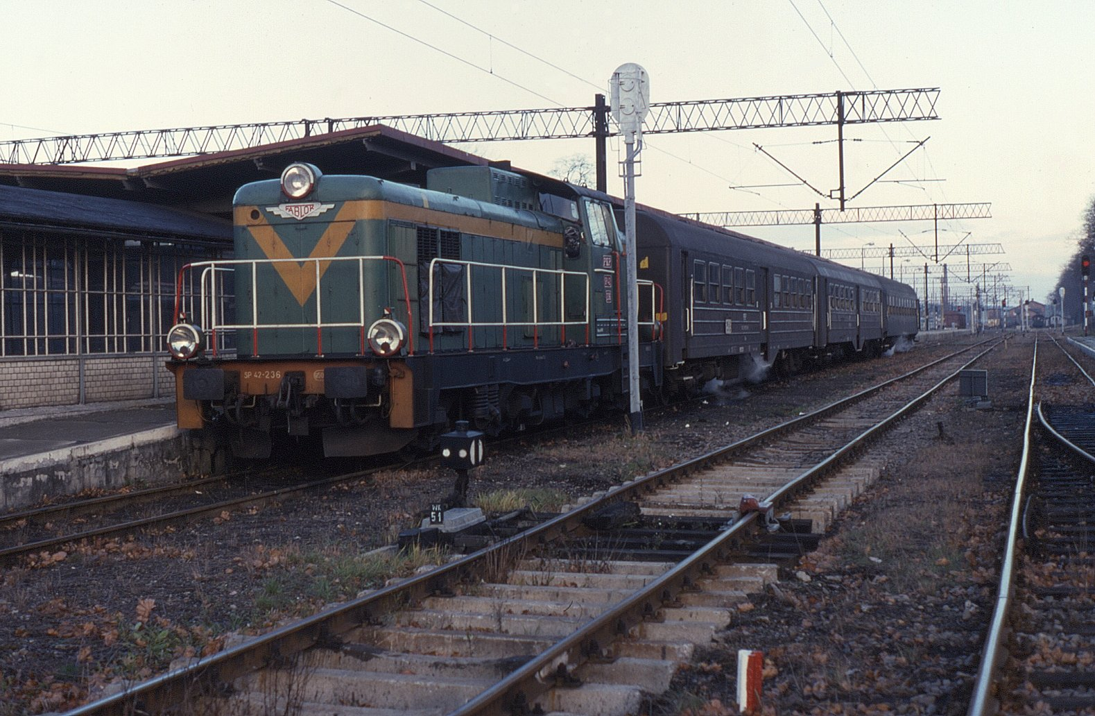 SP42-236 seen at the start of its journey on 16 November 1994 working train 4433, 15:18 Kamieniec Ząbkowicki to Legnica.